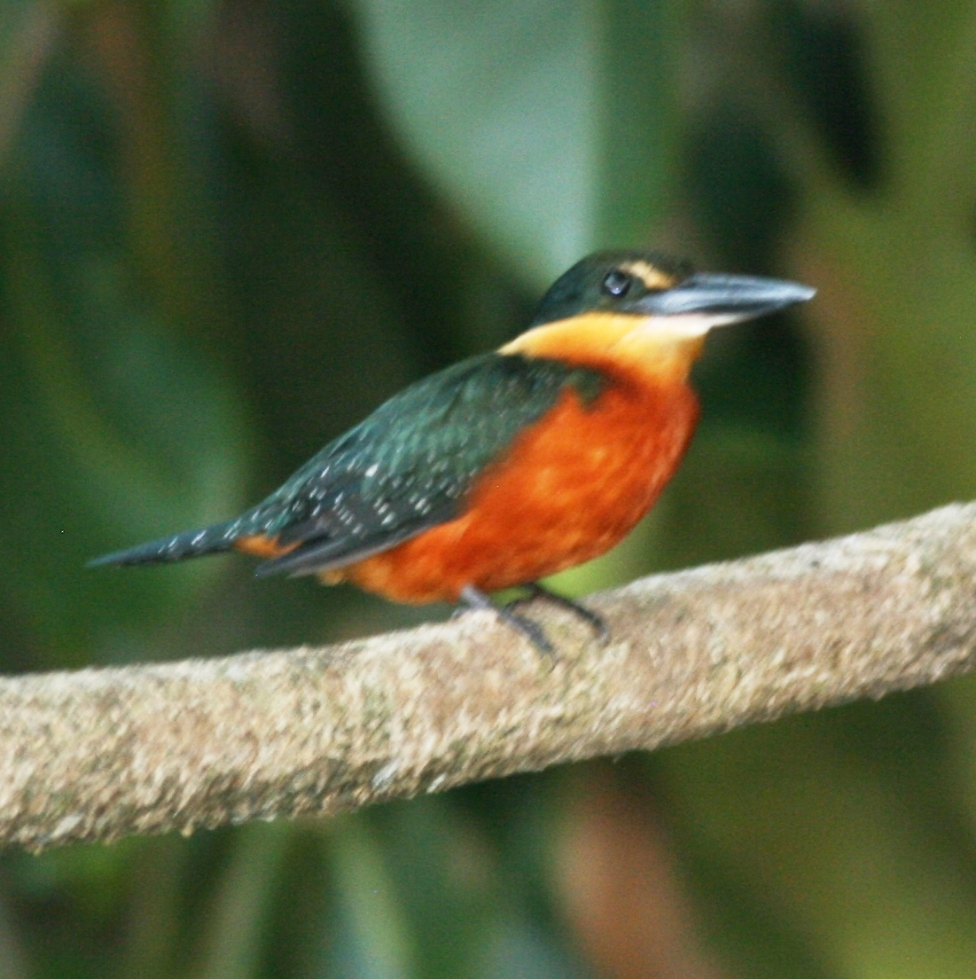 A male Green-and-rufous Kingfisher on Chalalan Lake, Tuichi River, Madidi National Park, Bolivia.